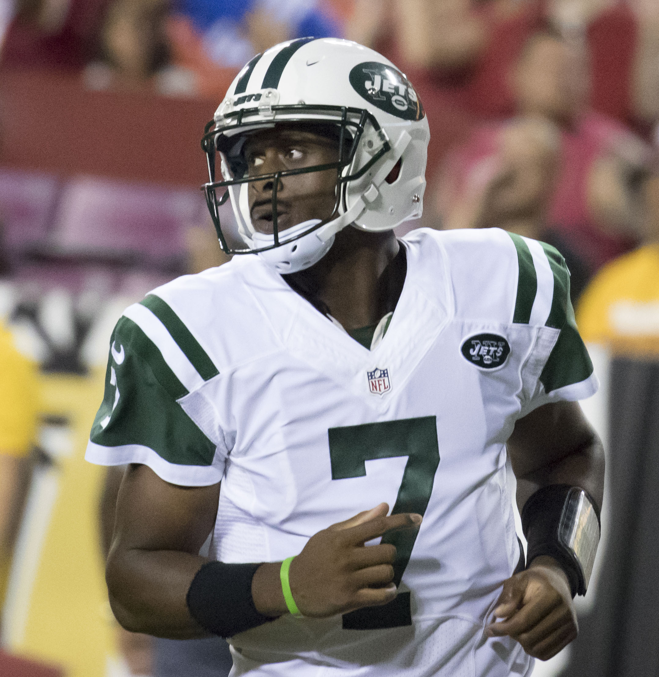 New York Jets quarterback, Geno Smith, playing against the Washington Redskins in preseason game on August 19, 2016.